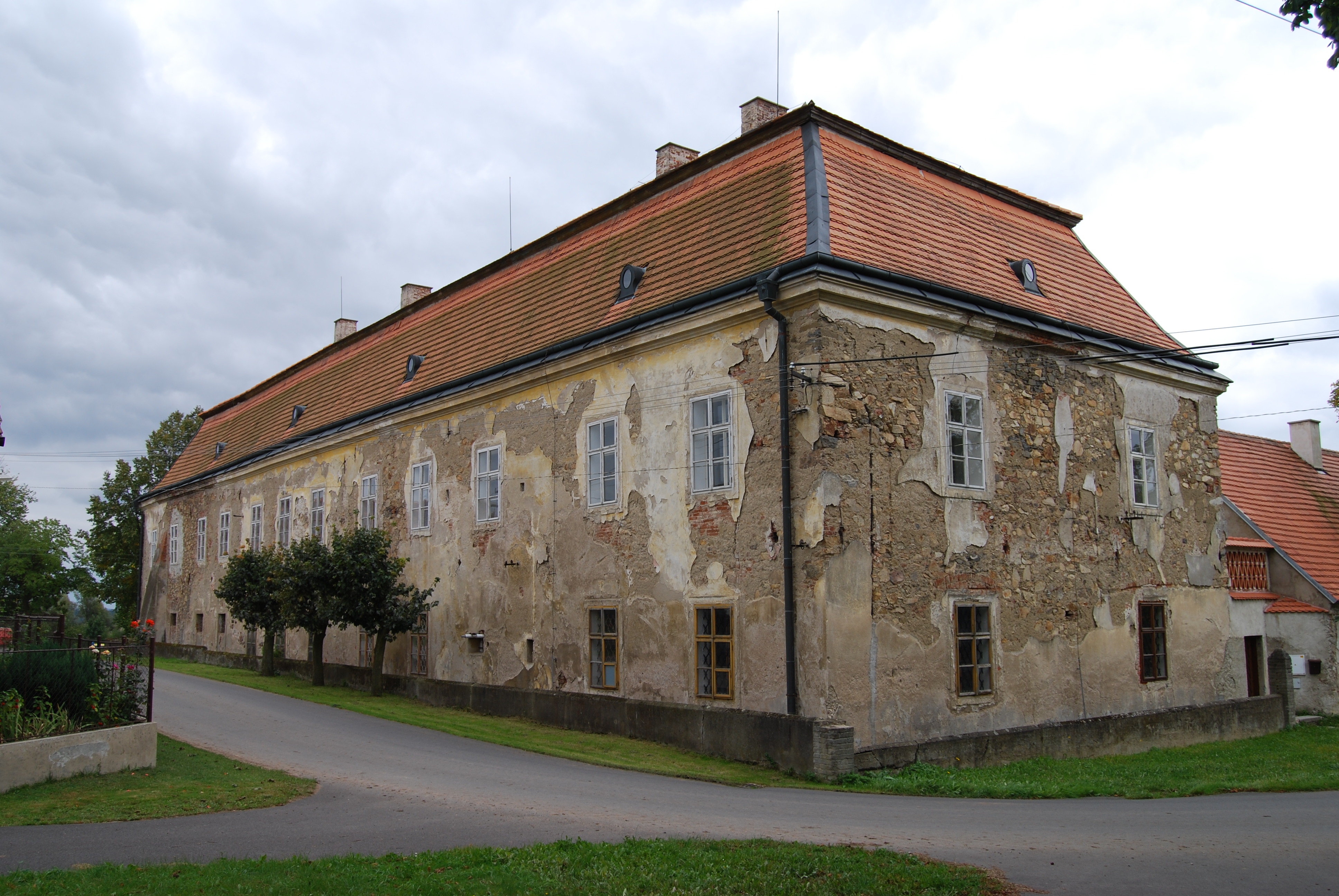 Cerhonice village in Pisek District, Czech Republic.